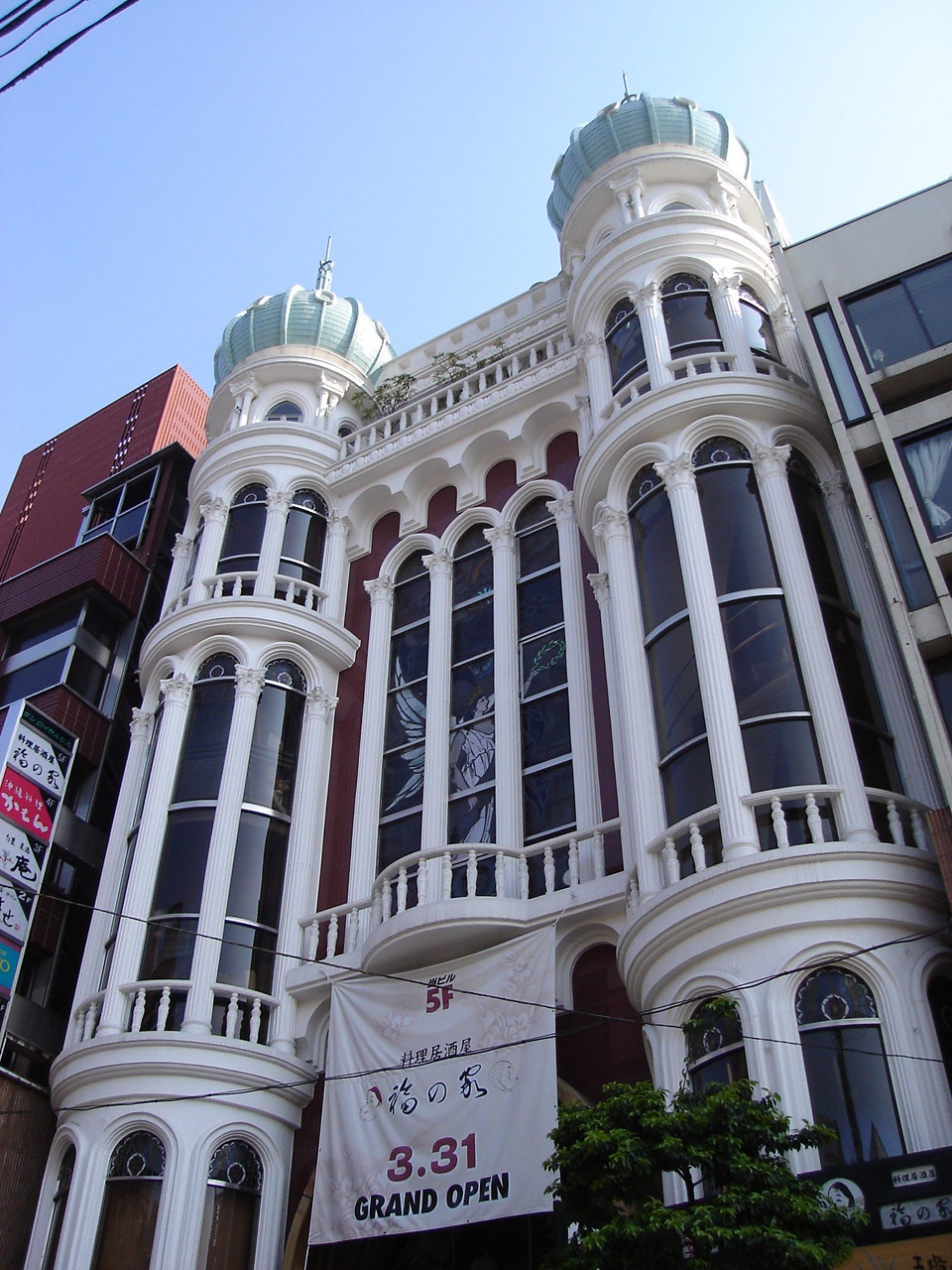 Just down the street from the Russian cathedral in Ochanomizu. Now, this old building is commercial space.